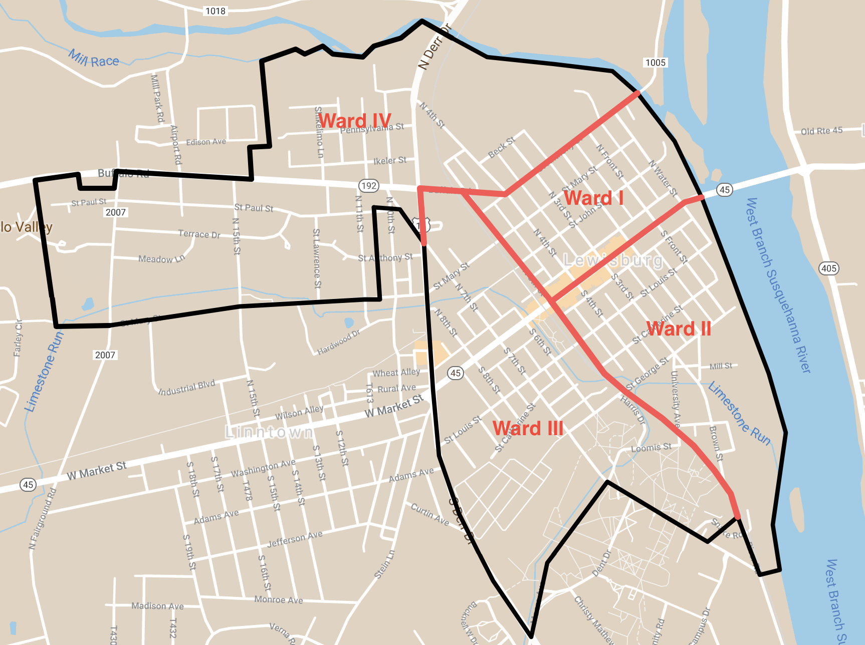 Map of the four wards of Lewisburg, PA